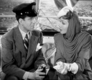 Screenshot of Rudy Vallée and Claudette Colbert from the film The Palm Beach Story